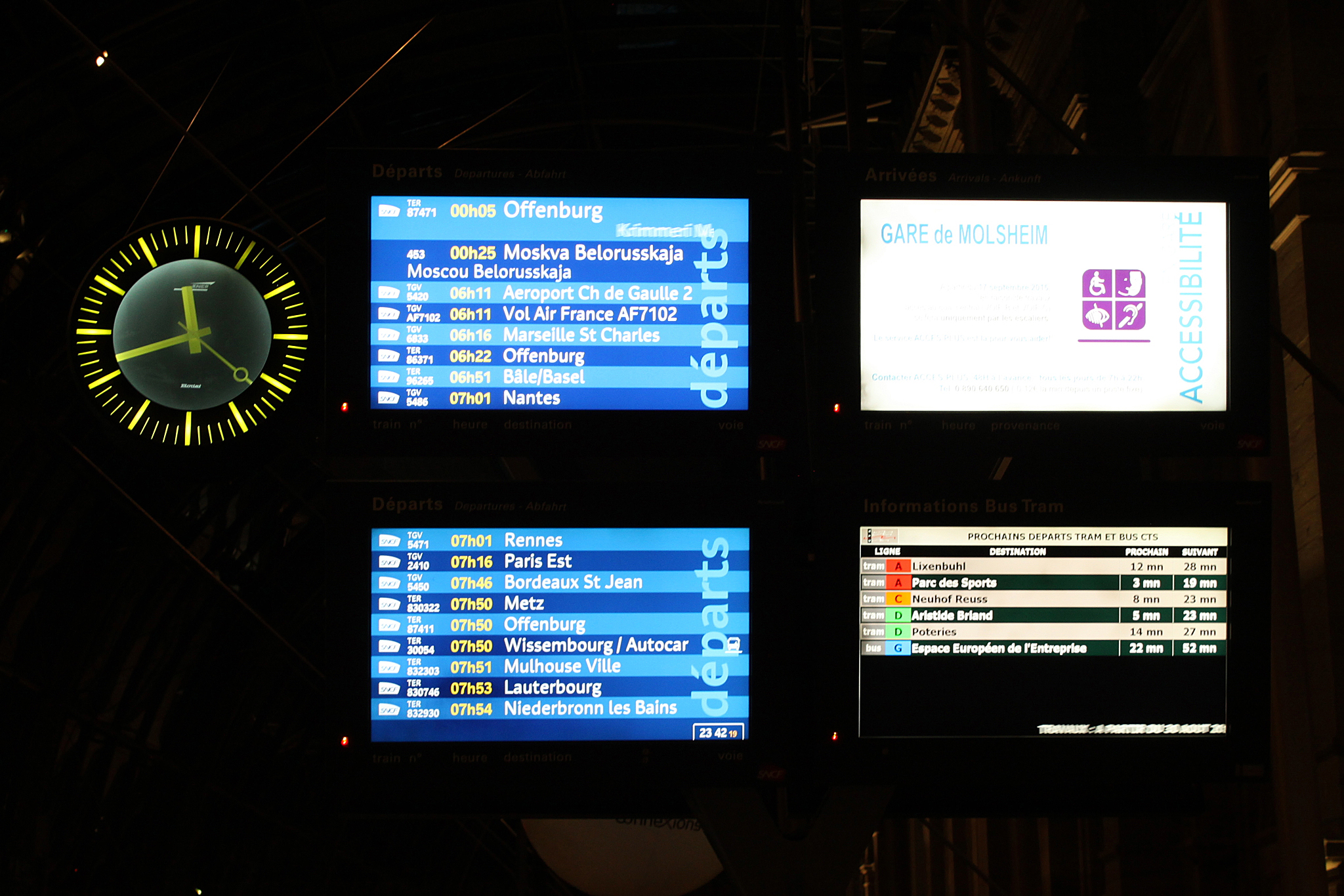 Information boards at Strasbourg train station.